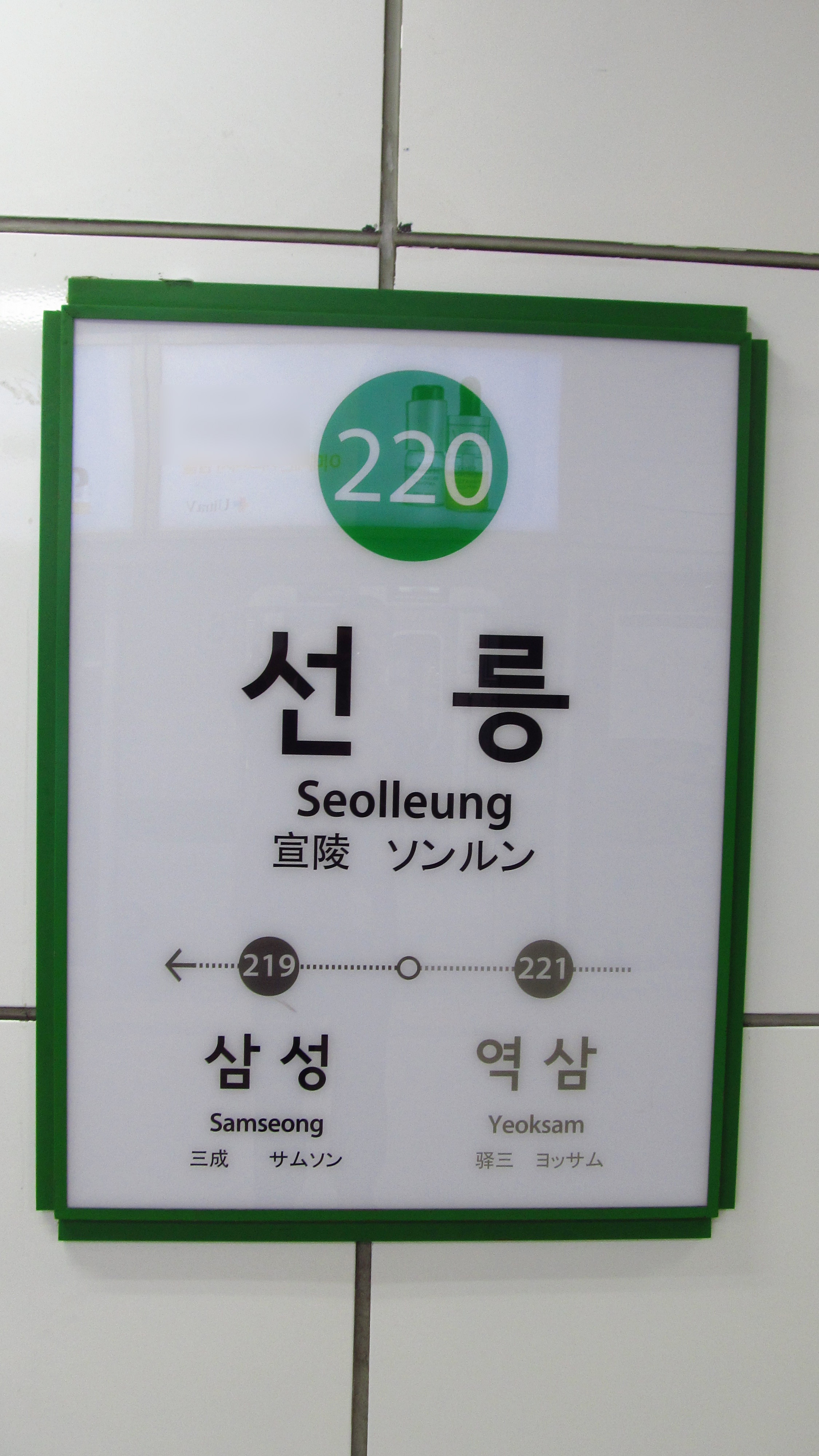 A sign of Seolleung Station on Seoul Subway Line 2